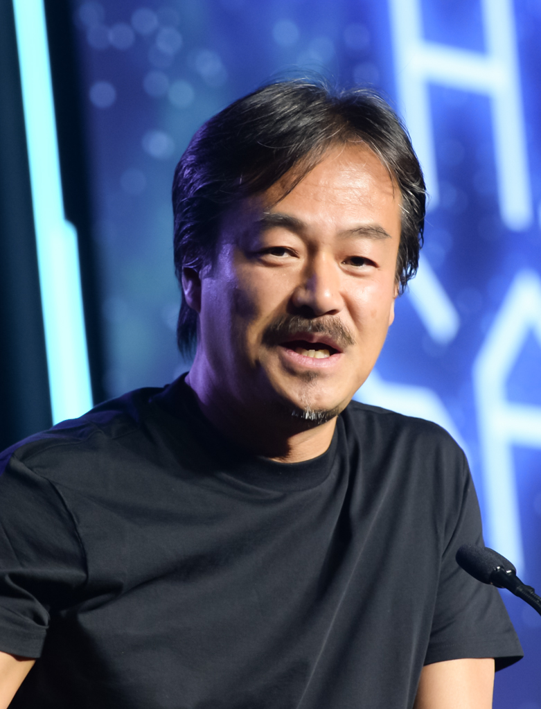 IGF Awards/GDCA